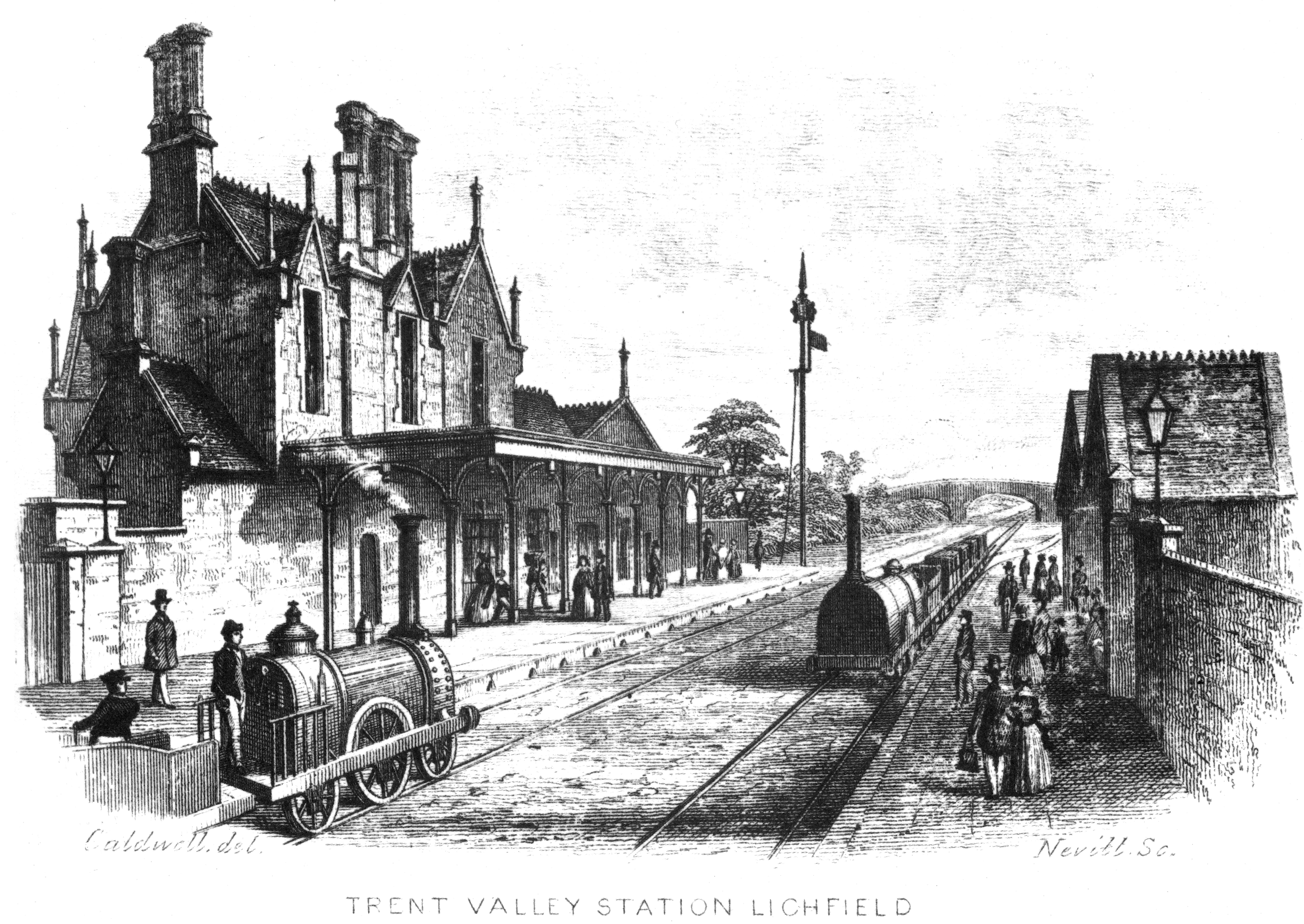 A view north from Burton Road bridge at the first railway station to be built in Lichfield. Built in 1847 by architect John Livock in a Tudor Gothic style. This station was used by passengers on the LNWR line until 1871 when Lichfield Trent Valley Station was built in its present location. This building existed as accommodation fro railway staff until it was demolished in 1971. Note Robert Stephenson's 2-2-2 passenger locomotive (on the left).